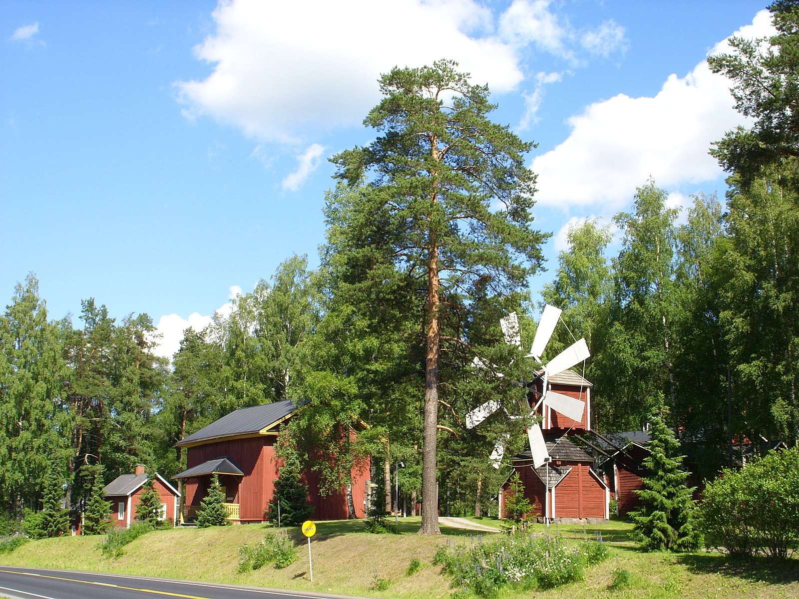 Jalasjarvi local heritage museum Museum: The local heritage museum of Jalasjarvi has two wind mills. The wind mills have become symbols of Jalasjarvi like the proverb:Jalasjarvi is the gate of Botnia. There are restaurauted wind mills also in the villages of Hirvijarvi and Luopajarvi. The most famous wind mill is on the hill of Aittoomaki just on the left side of the highway of valtatie 3. In Jalasjarvi a small scale wind mill models are sold for gardens. The museum has several wooden houses brought also from the other municipalities. On the territory of the museum there are also two houses, which do not belong to the museum itself, but also help to preserve local traditions and local heritage: Pelimannitalo (the house of folk music players) and Perinnetalo (the house for the heritage of the war veterans). Photograph: Samsung S850, Olli-Jukka Paloneva, , 4th July, 2007, N 62°30.112', E 022°44.293'